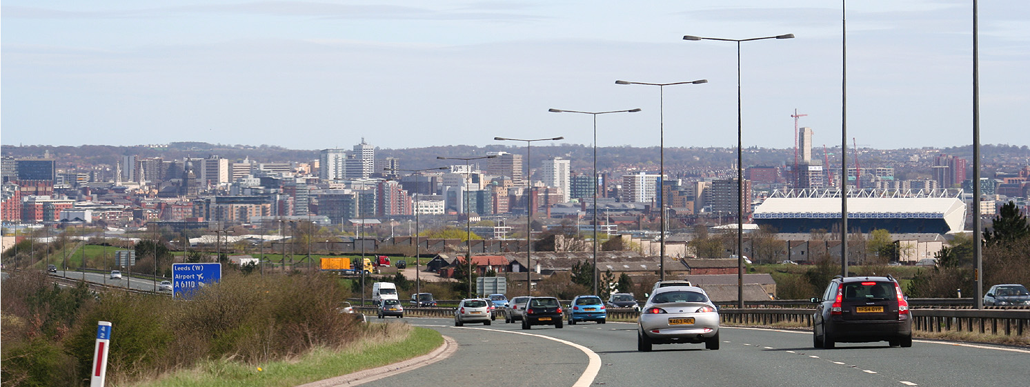 Leeds Skyline, taken from the M621